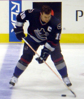 Markus Naslund with the Vancouver Canucks in 2005.